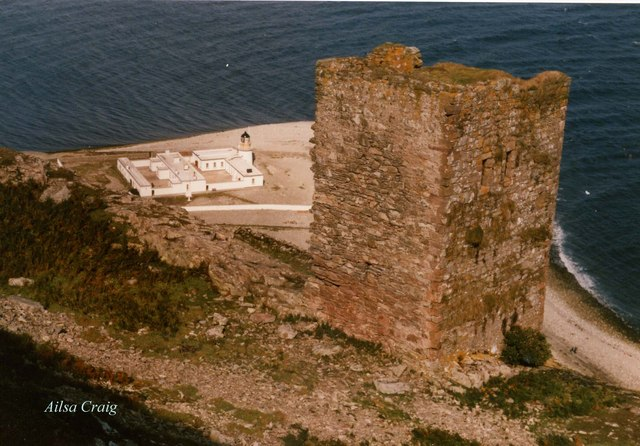 Ruined castle on Ailsa Craig, lighthouse below on shore